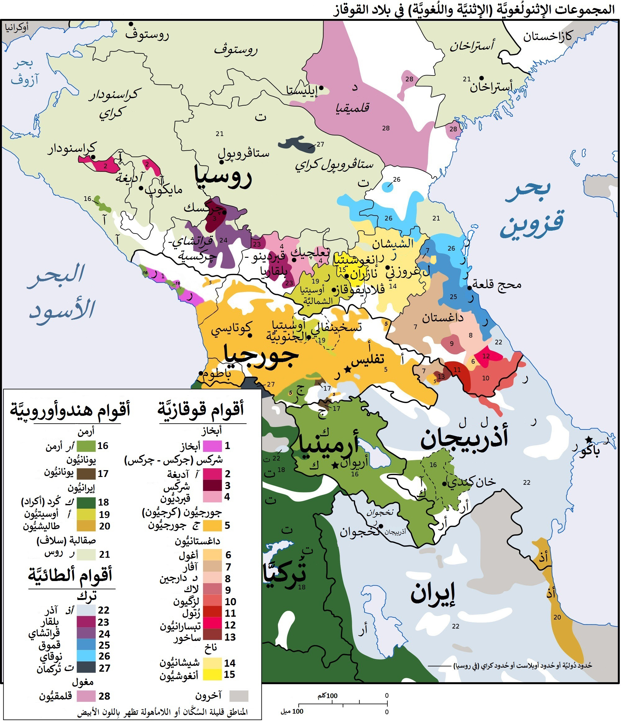 Map of the ethno-linguistic groups in the Caucasus region